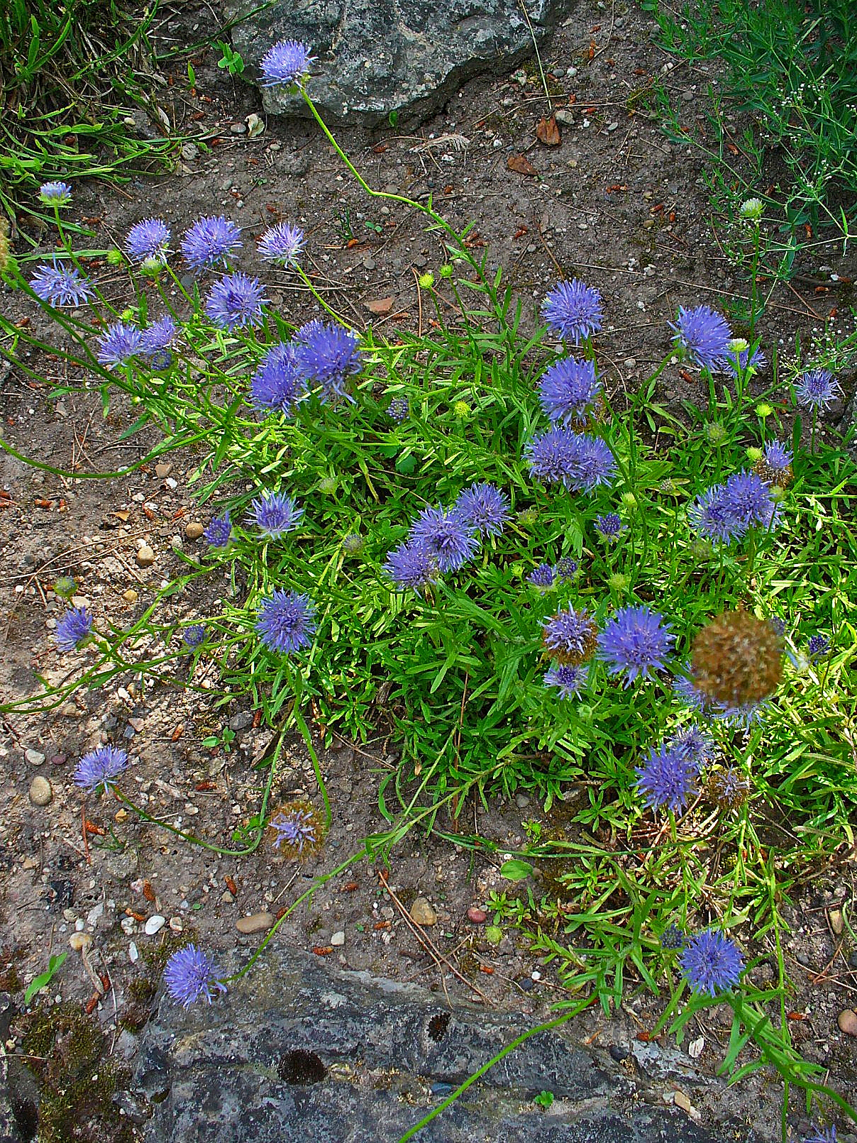 Jasione laevis, Campanulaceae, Sheep's Bit, habitus; Botanical Garden KIT, Karlsruhe, Germany.